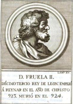 King Fruela II of León